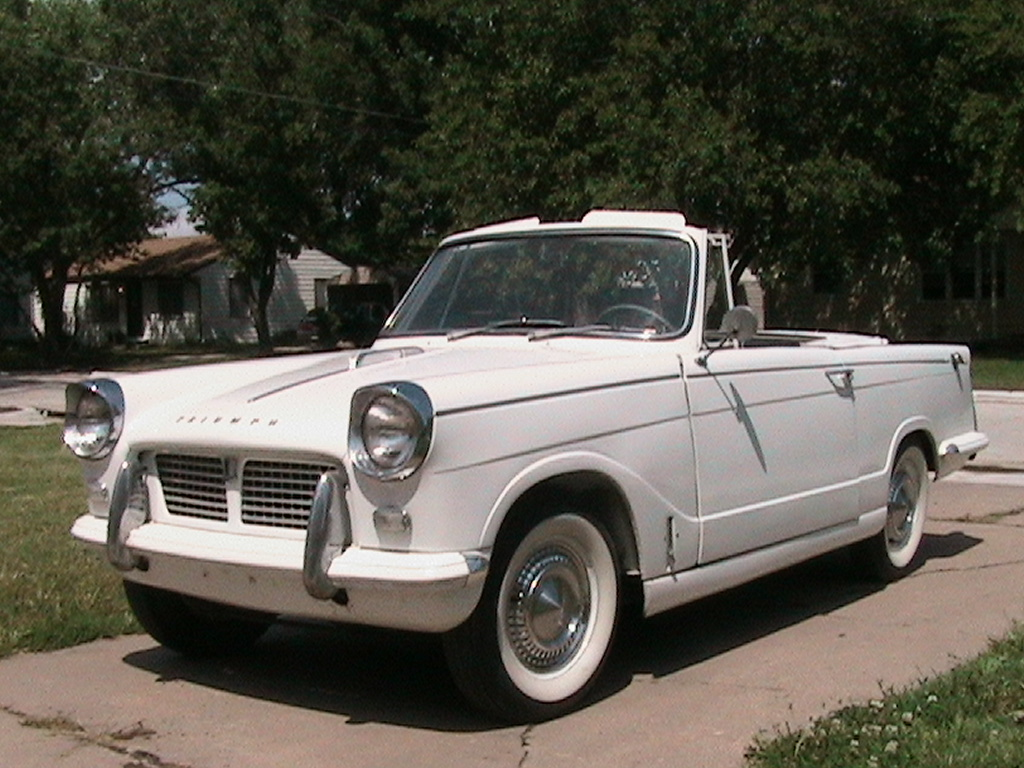 Summary Photo of mine in front of my home. Picture with Cannon 870 camcorder joshua blick personal website